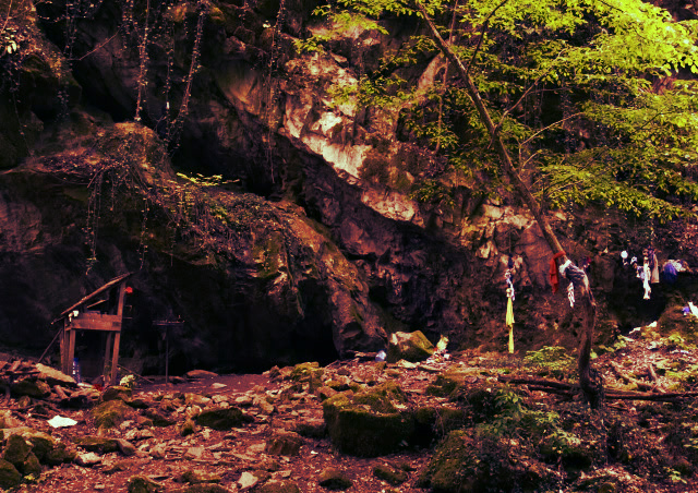 11Indipesah Strandzha BG